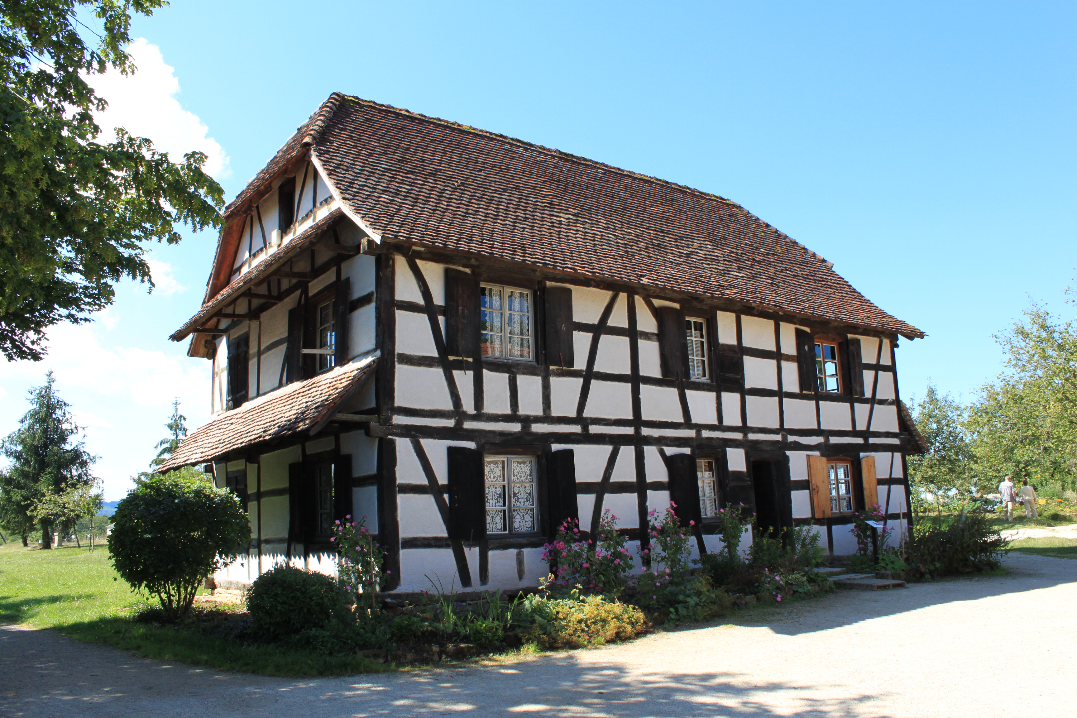 Maisons Comtoises de Nancray, France